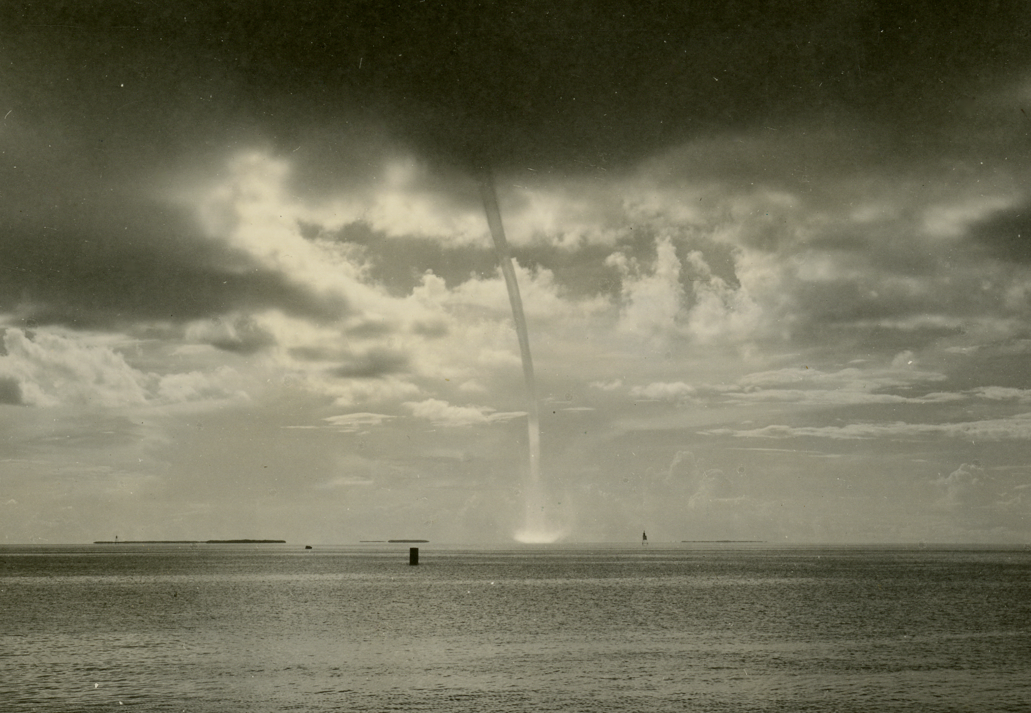 A water spout before the Hurricane of October 1944. Photo by E. J. Quinby. Effects of the 1944 Cuba–Florida hurricane in Key West, Florida, October 1944.